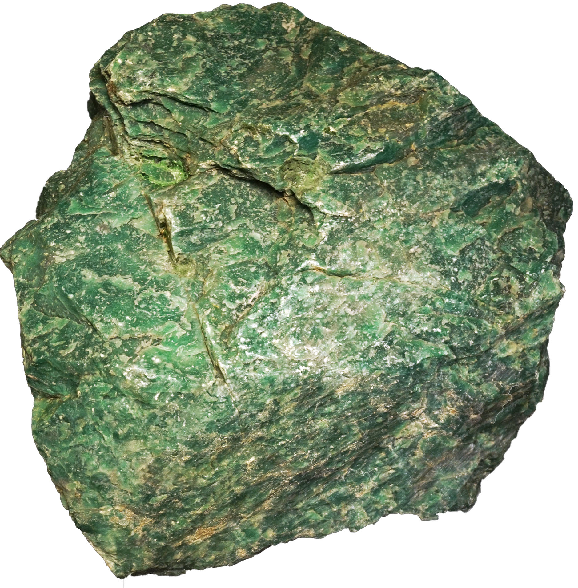 Metamorphic rock, talc. Naturmuseum Augsburg. From Madagaskar.This photograph was taken with a Sony ILCE-5000